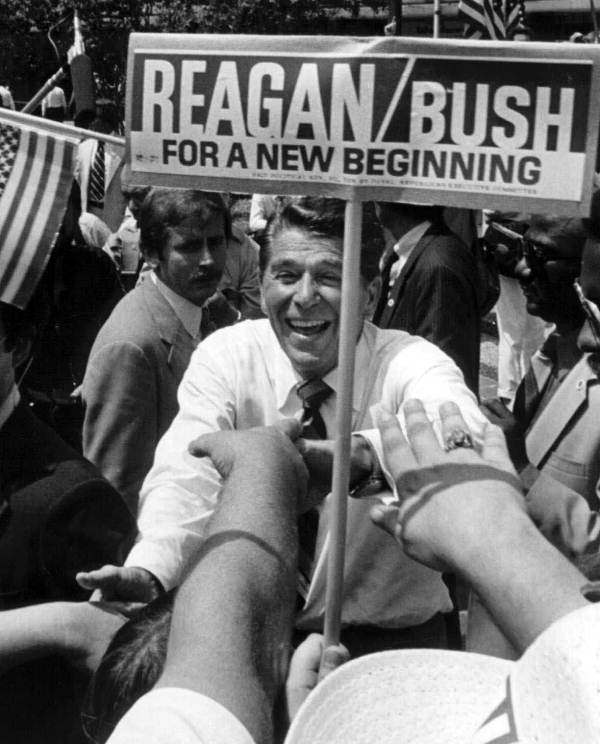 Local call number: MF1103 Title: Ronald Reagan campaigning in Florida Date: 1980 Physical descrip: 1 digital image - b&w Series Title: Repository: 500 S. Bronough St., Tallahassee, FL 32399-0250 USA. Contact: 850.245.6700. Persistent URL